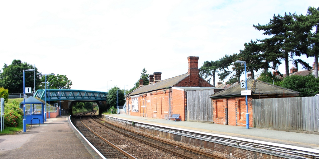 A view of Derby Road station in Ipswich, looking towards Westerfield.